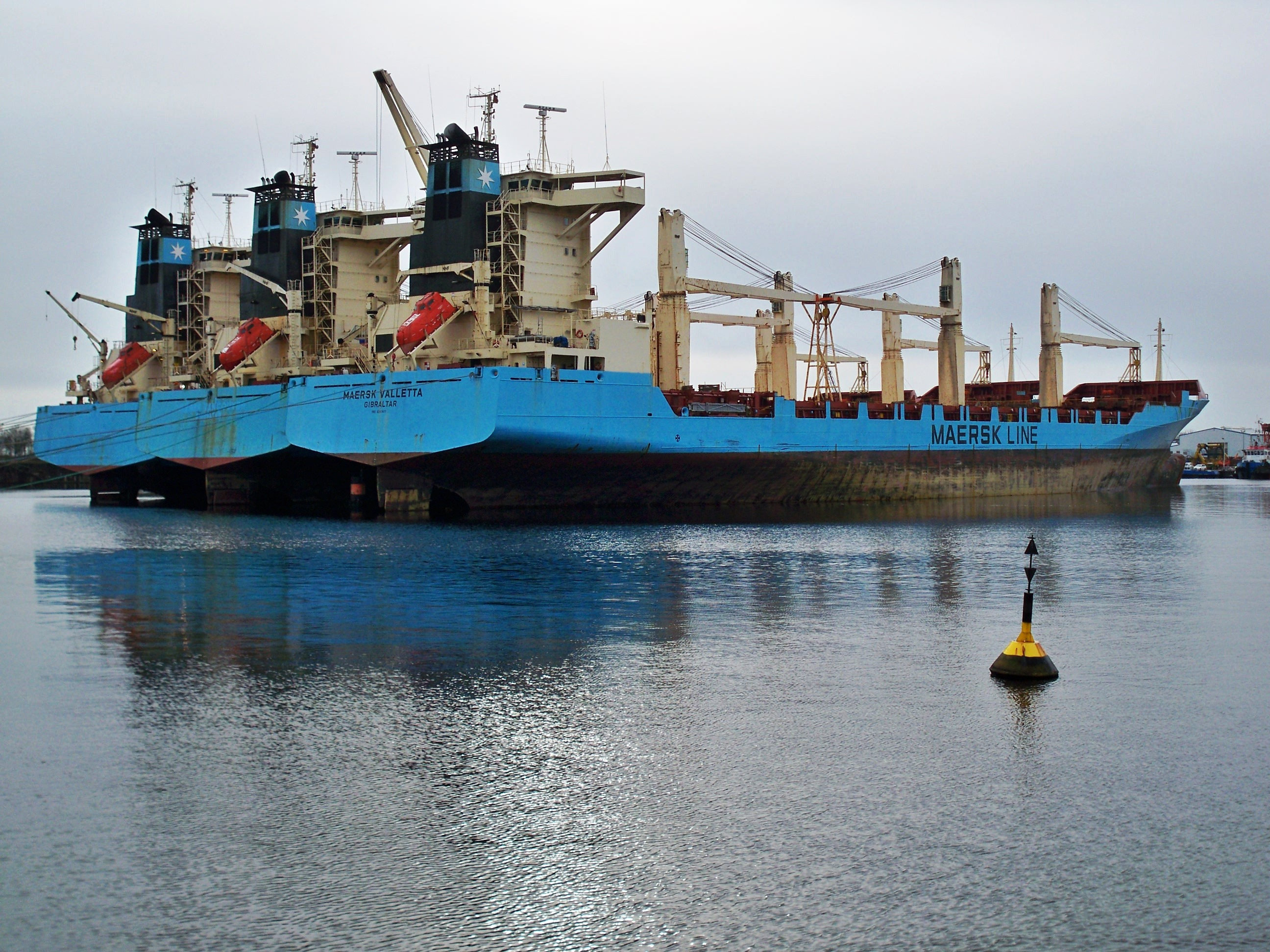 Container ships Maersk Valletta, Maersk Vancouver and Maersk Vigo laid up in the port of Wilhelmshaven